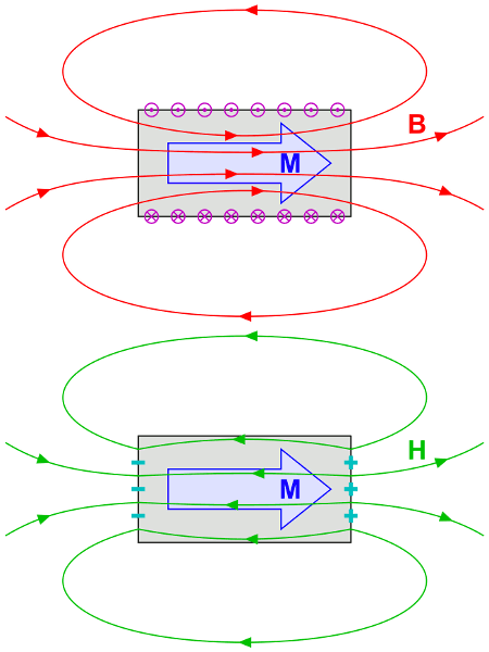 Magnetic fields B and H created by a bar magnet. Magnetization is in blue. Top: the magnetic currents ∇×M (in magenta) create a B field (in red) similar to the one produced by a coil. Bottom: The magnetic charges -∇⋅M (i.e. the magnet poles, in cyan) create an H field (in green) similar to the electric field in a parallel-plate capacitor. B and H are the same outside the magnet but differ inside.